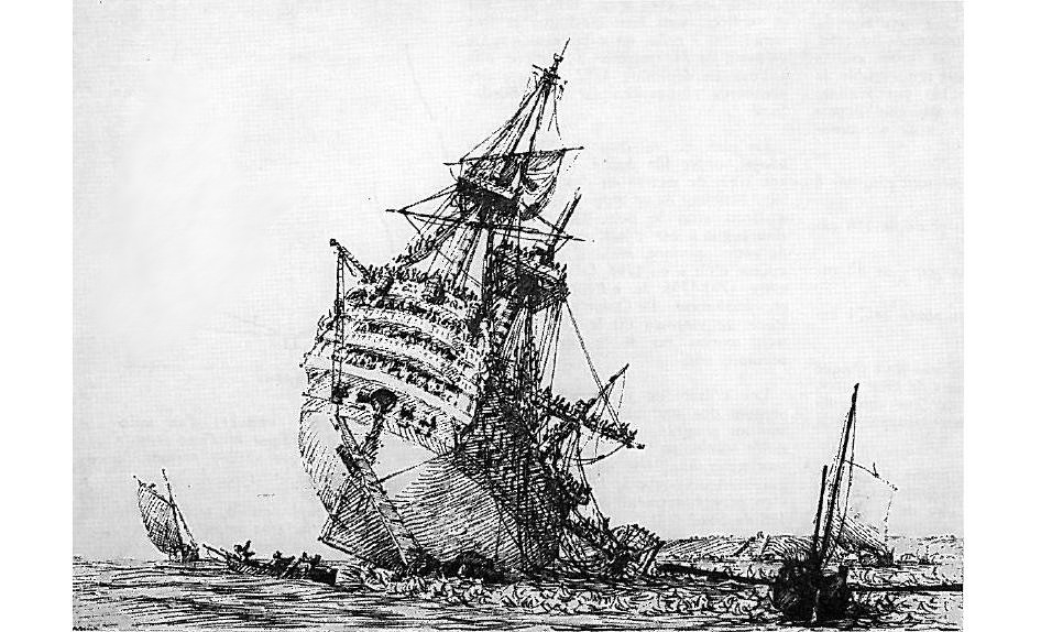 Républicain grounded on 25 December 1794 on Mingant rock.